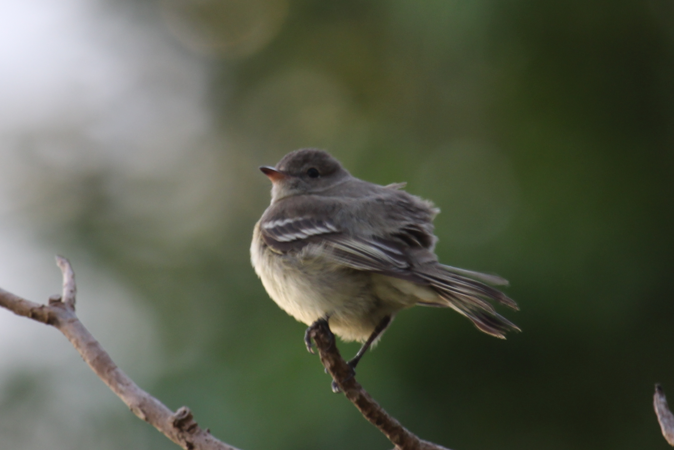 Poor record shot